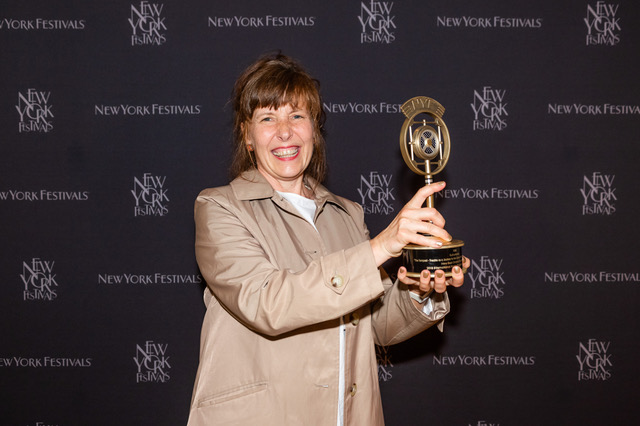 Doerr Golden Award NYC Festivals 2018 - "Oscar" 22.6.2018